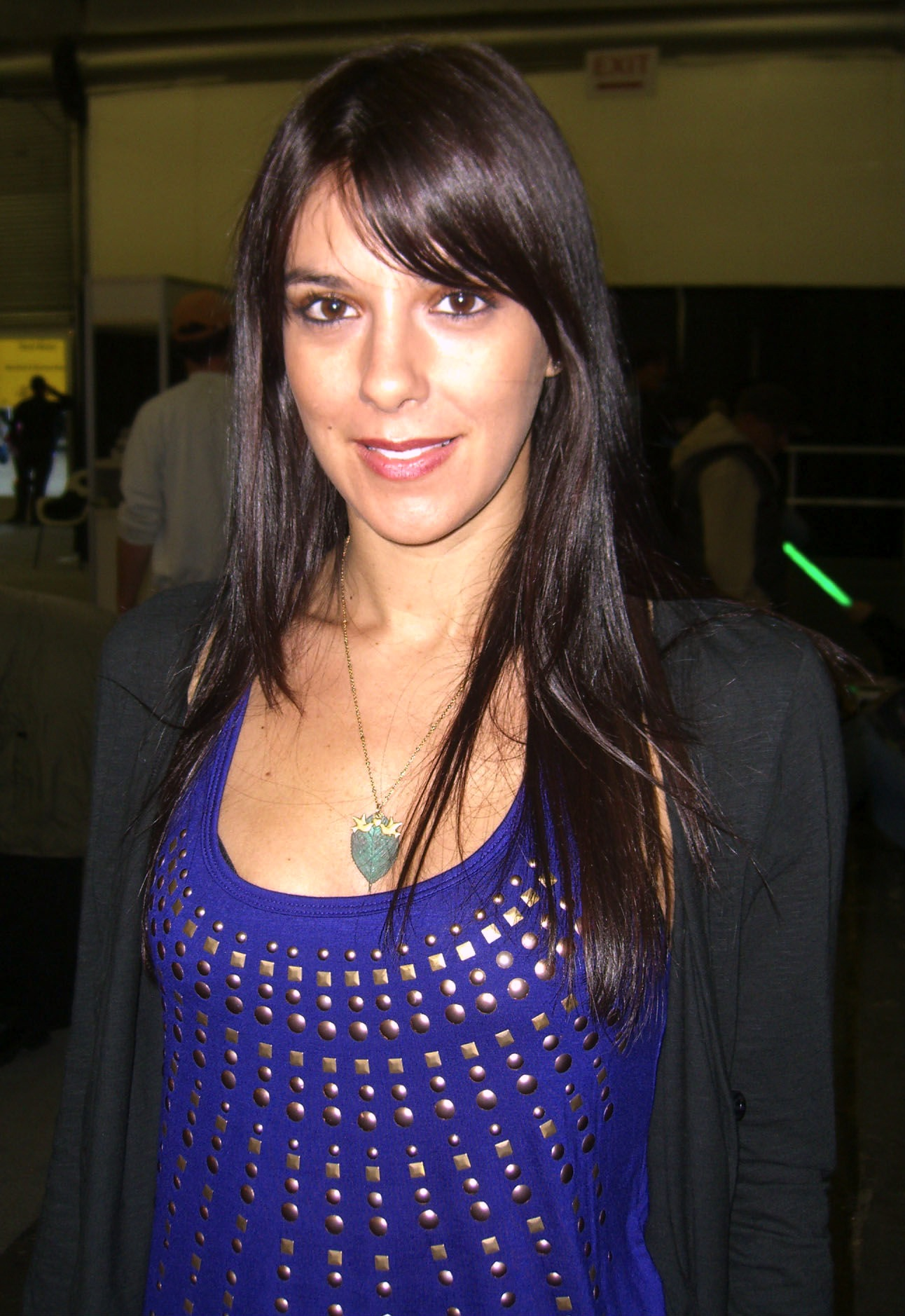 Model and reality TV personality Jenna Morasca at the Big Apple Convention in Manhattan. Photo by Luigi Novi. This photo may be used, modified and published for any purpose, only if the photographer is visibly credited in each instance in which it is used. (See licensing information below.) For more information on my photos, you can contact me here.)